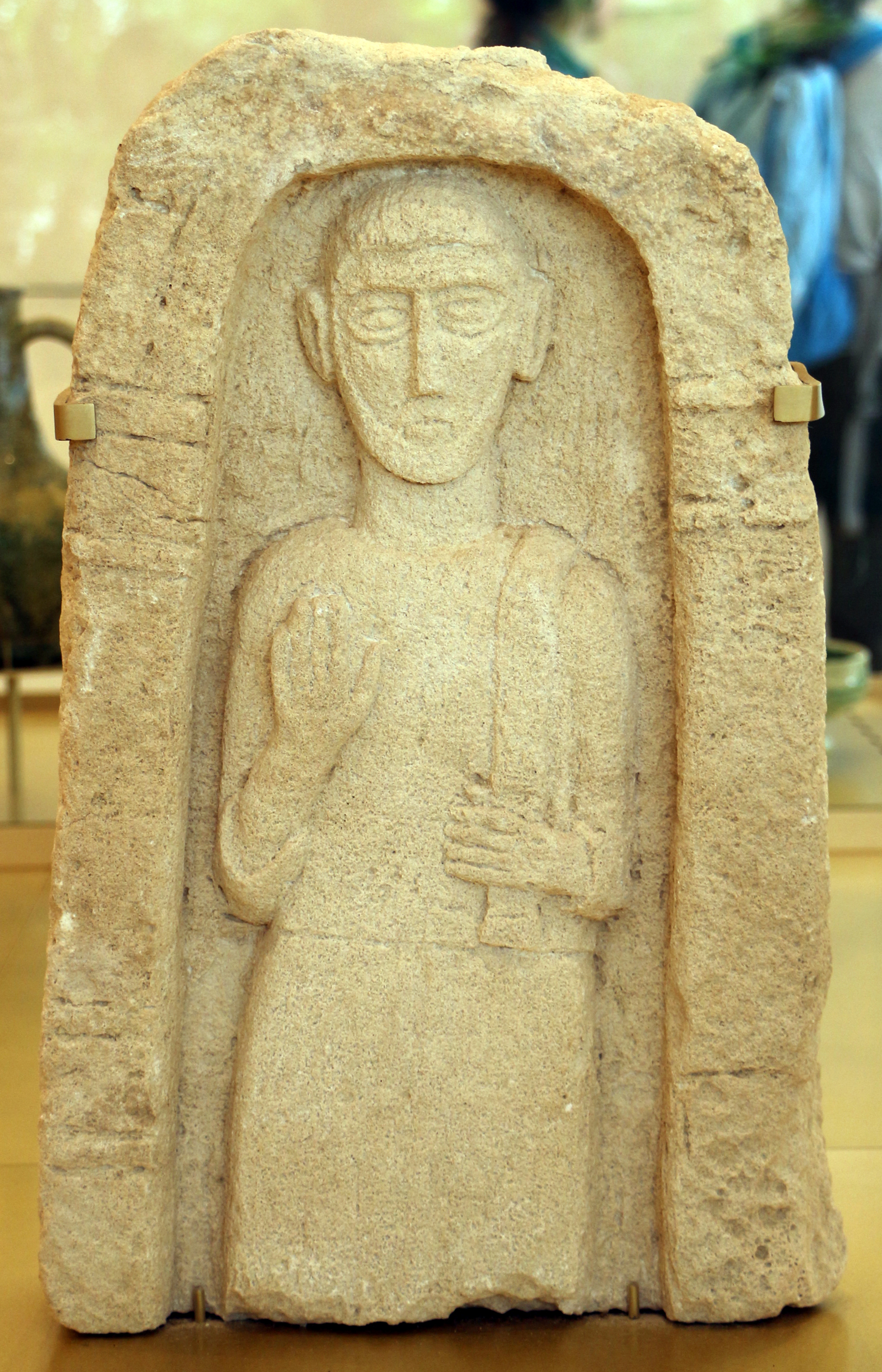 Bahrain pavilion of Expo 2015